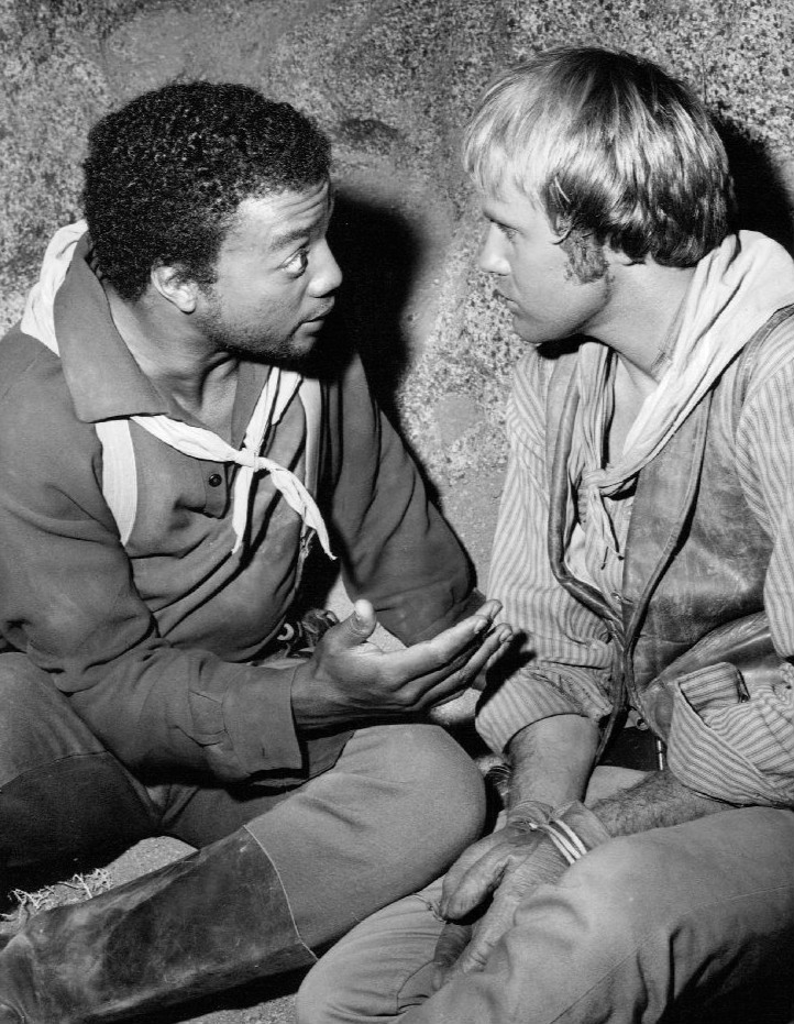 Photo of Paul Winfield and Mark Slade from the television program The High Chaparral. Winfield guest stars as an army deserter who seeks the help of Billy Blue Cannon (Slade) to falsify a story about his being mistreated.